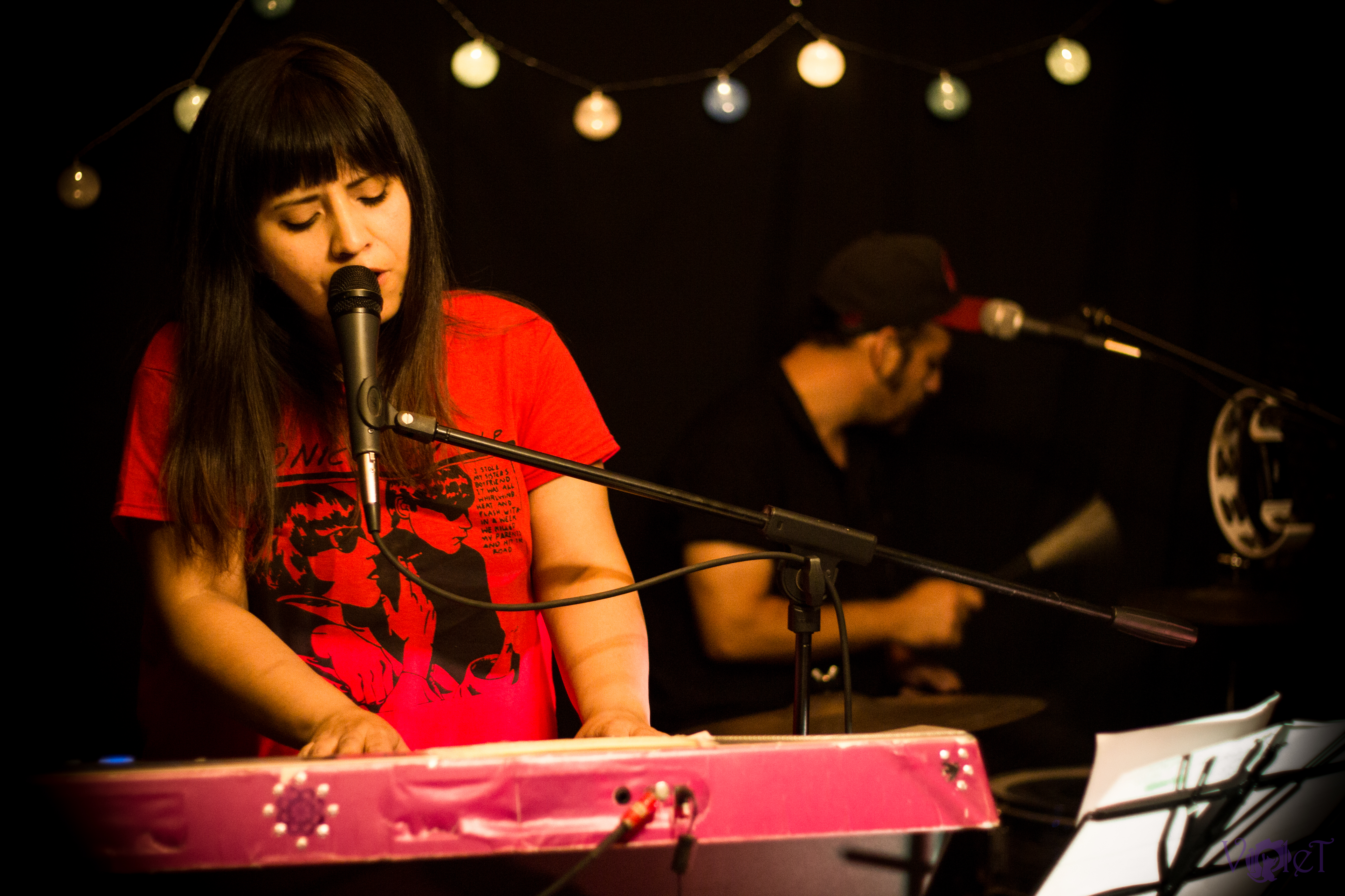 Natalia Molina en vivo